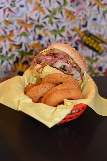 A photograph of the Guido Burger and onion rings at the restaurant Hodad's.